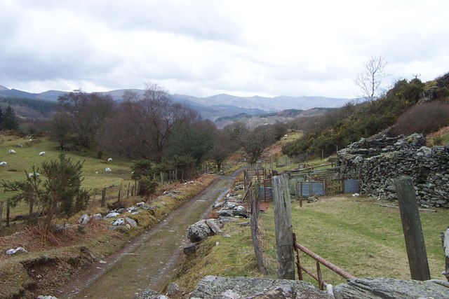 Sarn Helen Roman road. Looking South-west along the Sarn Helen Roman road near Fron Goch farm